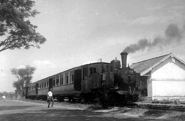 Madoera Stoomtram Maatschappij (24-LokoC3117yanglewatdiTelang-Bangkalansekitar1969)